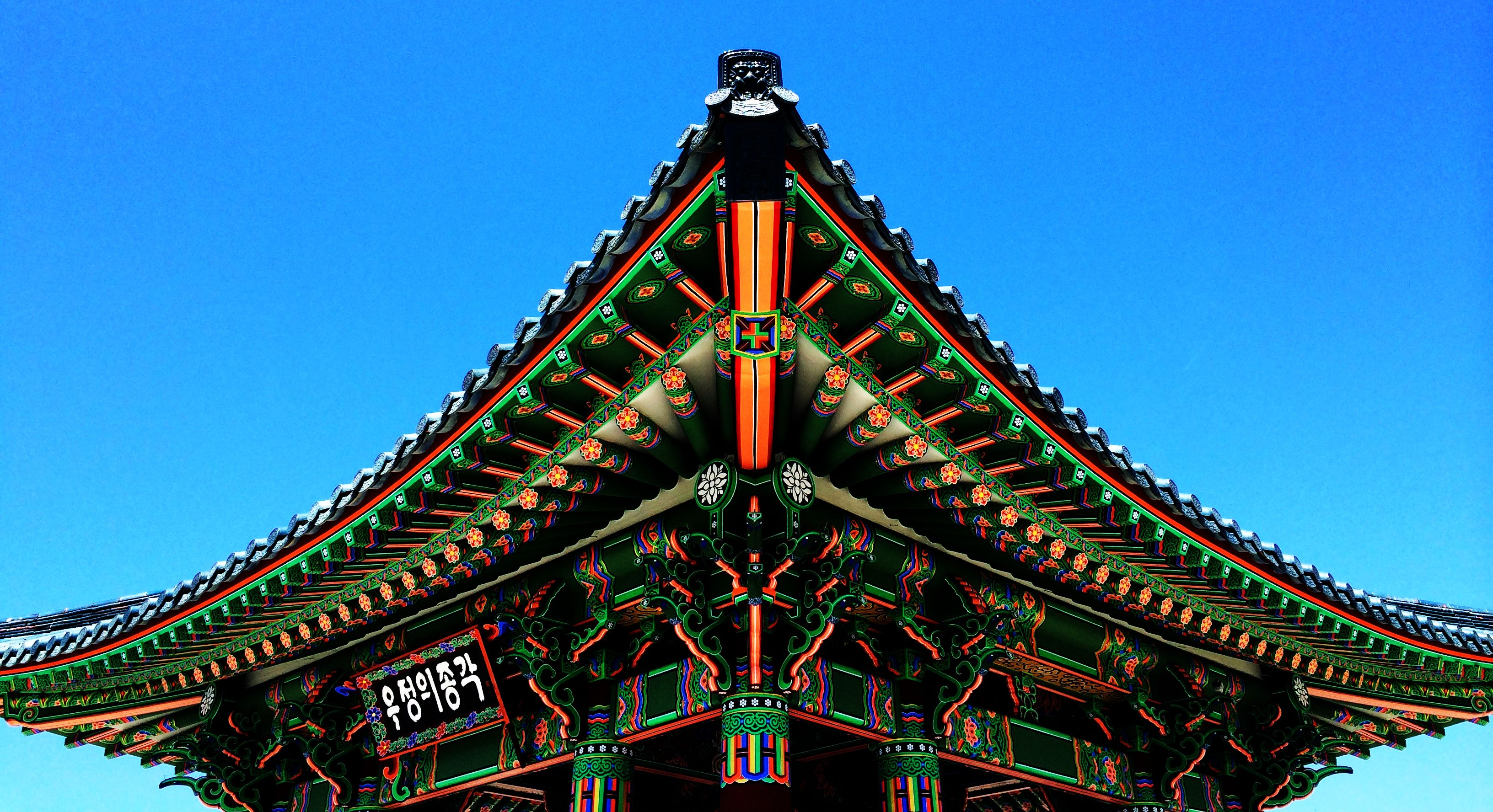 Korean Friendship Bell Roof - Los Angeles / San Pedro